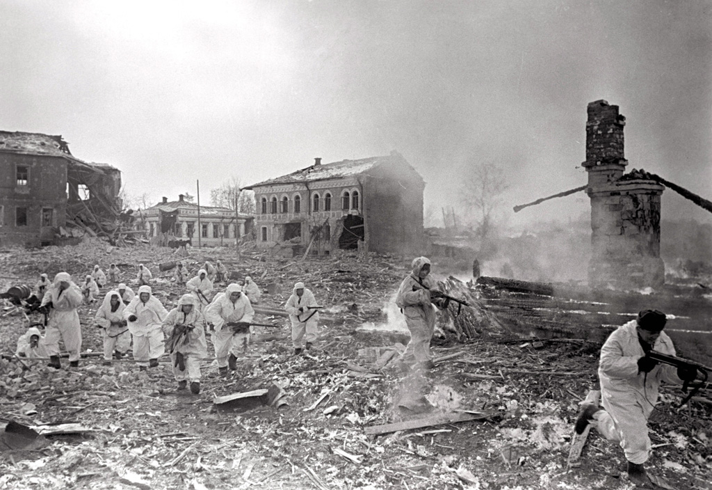 “Soviet scouts enter Yukhnov”. Soviet scouts enter Yukhnov. The Western Front.